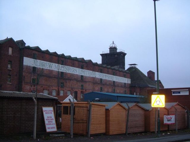 Ditherington Flax Mill The Ditherington Flax Mill was built in 1797, and was the first iron-framed building to be built in the world. It was built of iron because of the combustible nature of the flax.